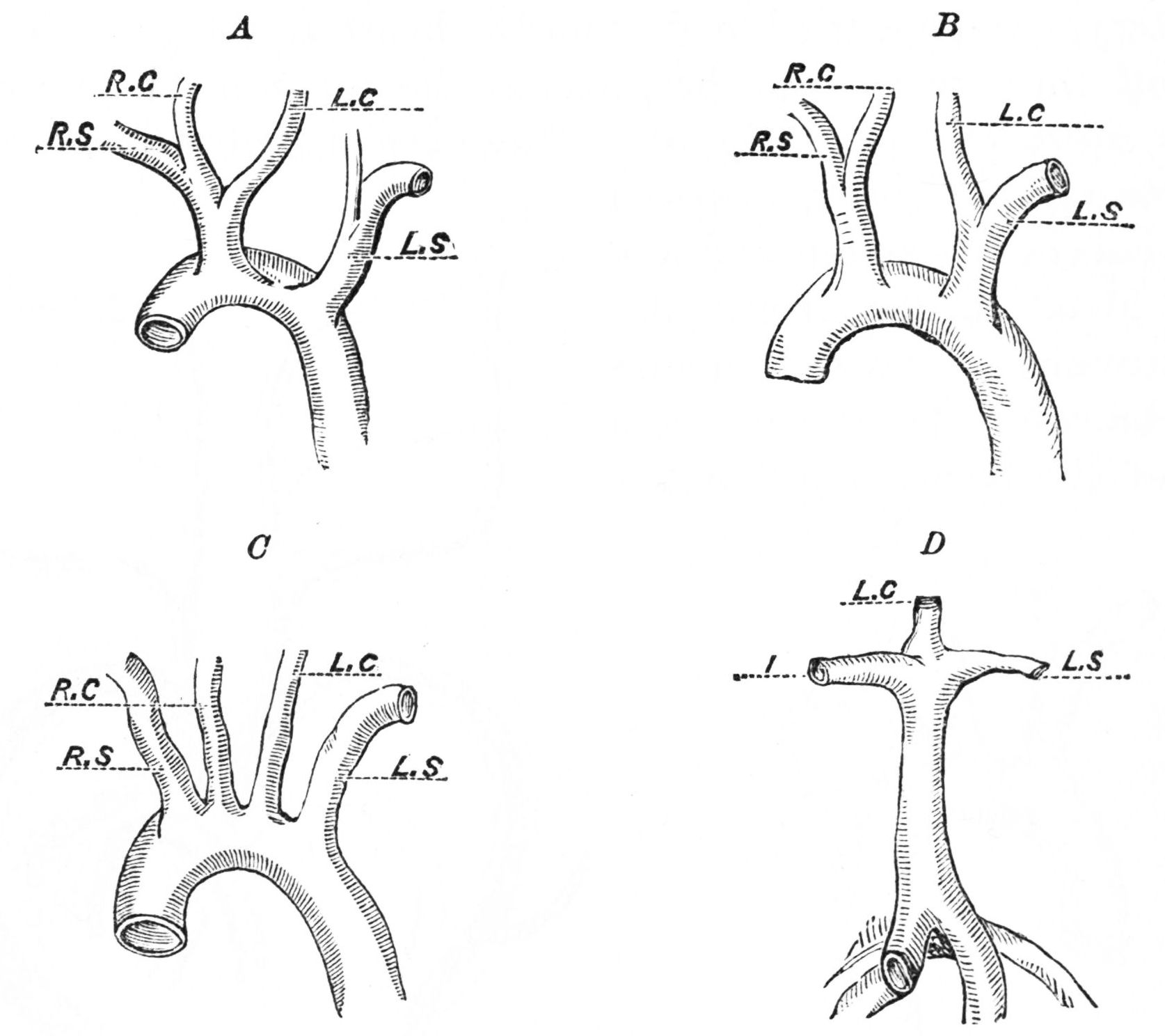 Carotid subclavian and innominate arteries